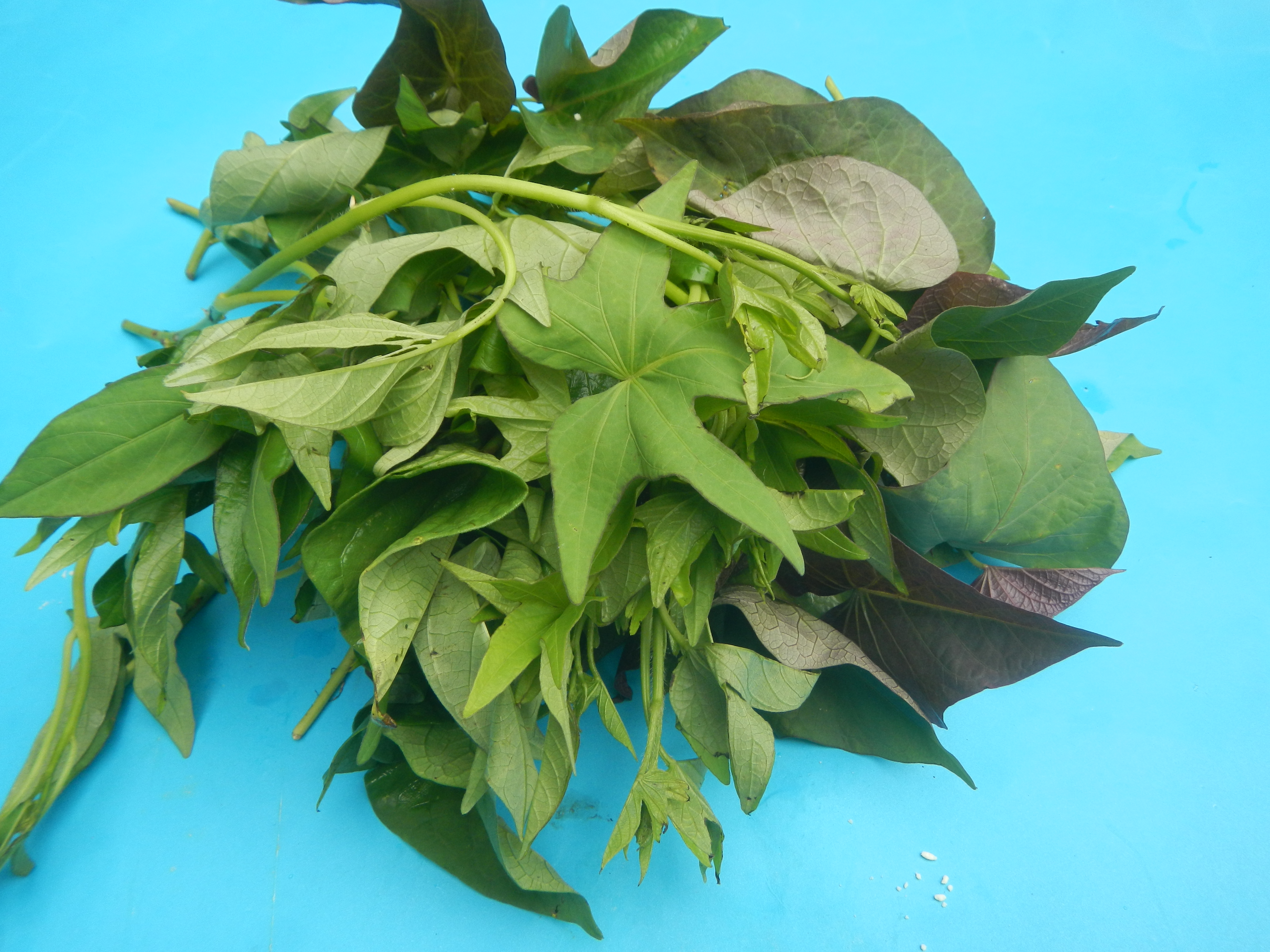 Green-yellow bell peppers Talbos ng Kamote Foods Fruits Baliuag Bulacan Philippines photos taken in Barangay Poblacion 14°57'17"N 120°54'2"E Baliuag, Bulacan, Bulacan province (Note: Judge Florentino Floro, the owner, to repeat, Donor Florentino Floro of all these photos Judge Floro hereby donate gratuitously, freely and unconditionally all these photos to and for Wikimedia Commons, exclusively, for public use of the public domain, and again without any condition whatsoever).